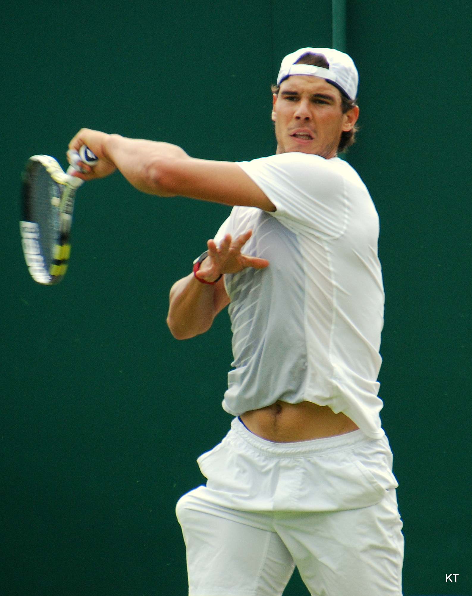 Rafael Nadal practising with Marc Lopez before his 2nd round match with Lukas Rosol. Day 4 of Wimbledon 2014.